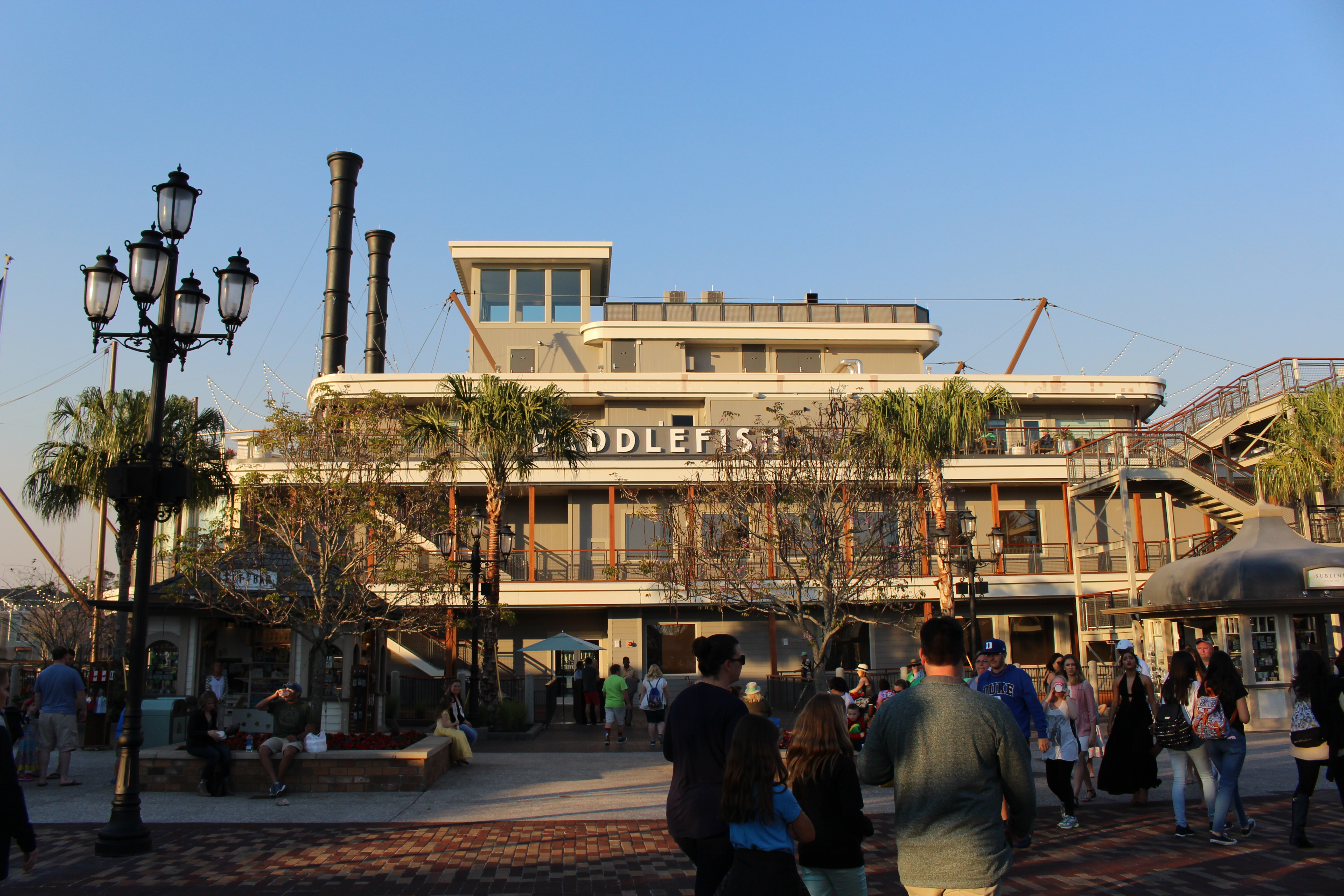 The Landing, Disney Springs, Lake Buena Vista, Orange County, Florida